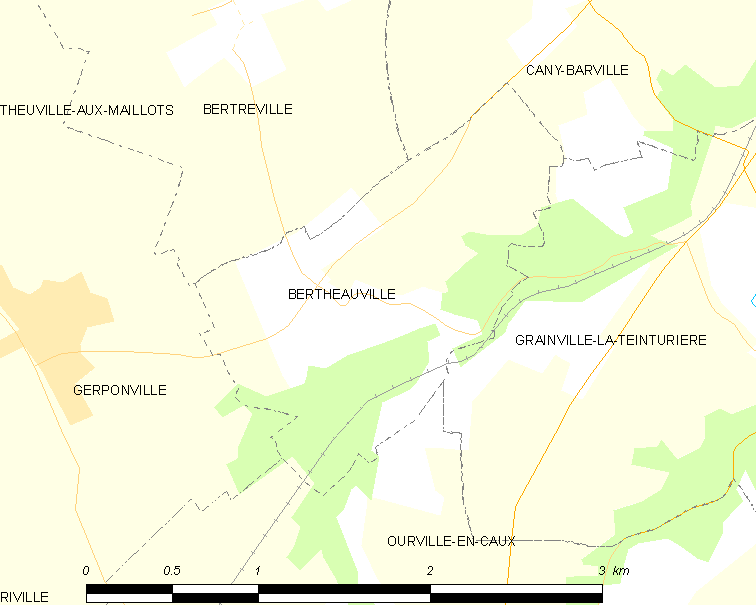 Map of French municipality Bertheauville